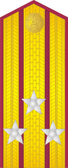 Rank insignia of the Red Army (1943-1946) and Soviet Army (1946-1955), here "Colonel" (OF5) Army – shoulder strap service uniform. Particularity: Corps colour “Crimson“, infantry and motorized infantry.